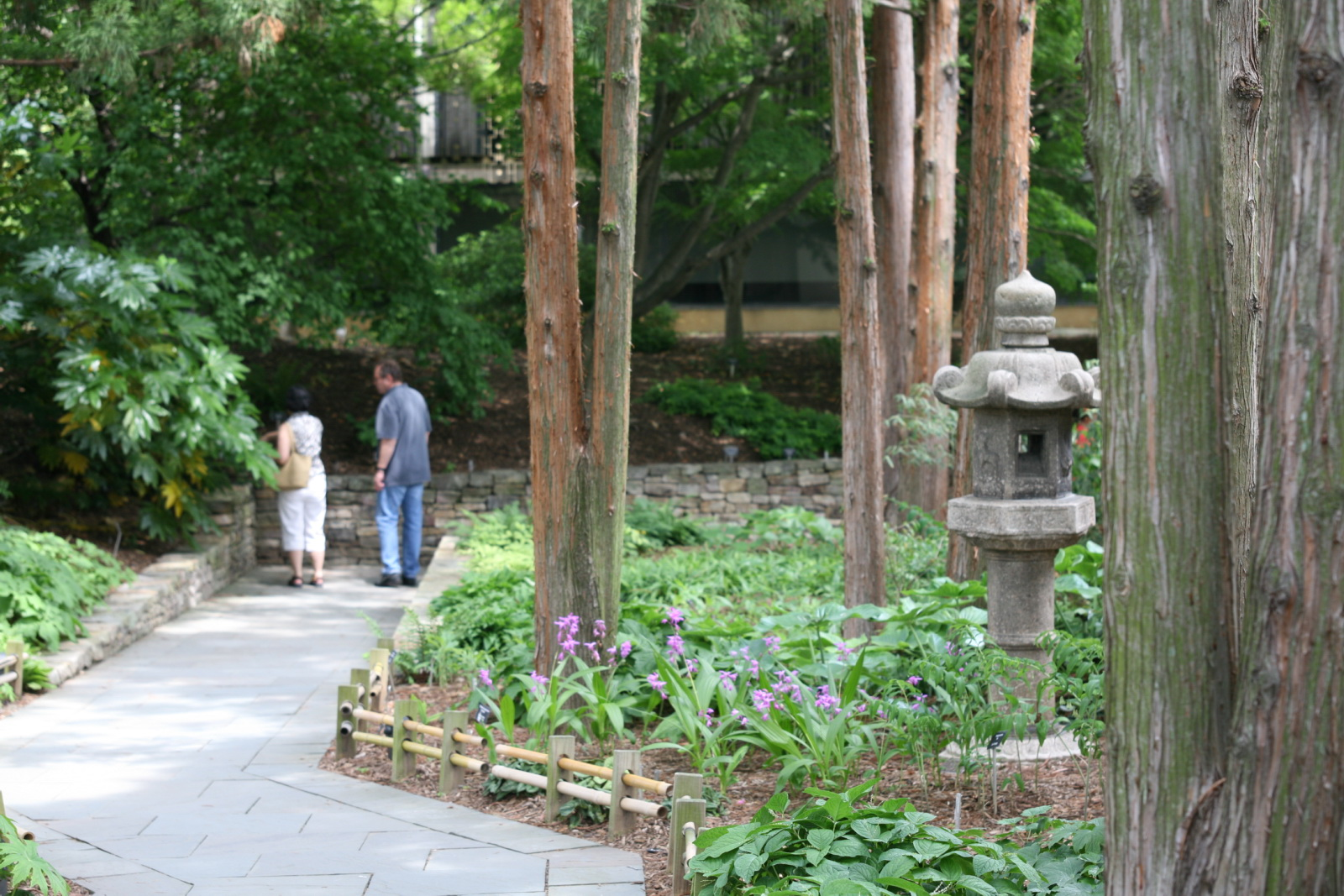 On the right is the 150 year old Japanese Lantern .